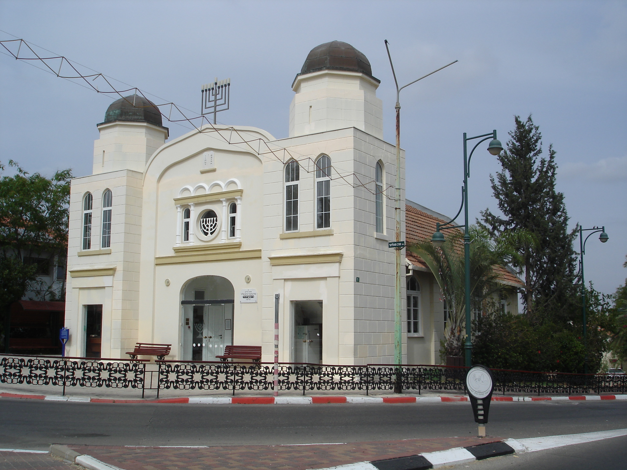 Synagogue of Mazkeret Batya, donator: Baron Rothschild